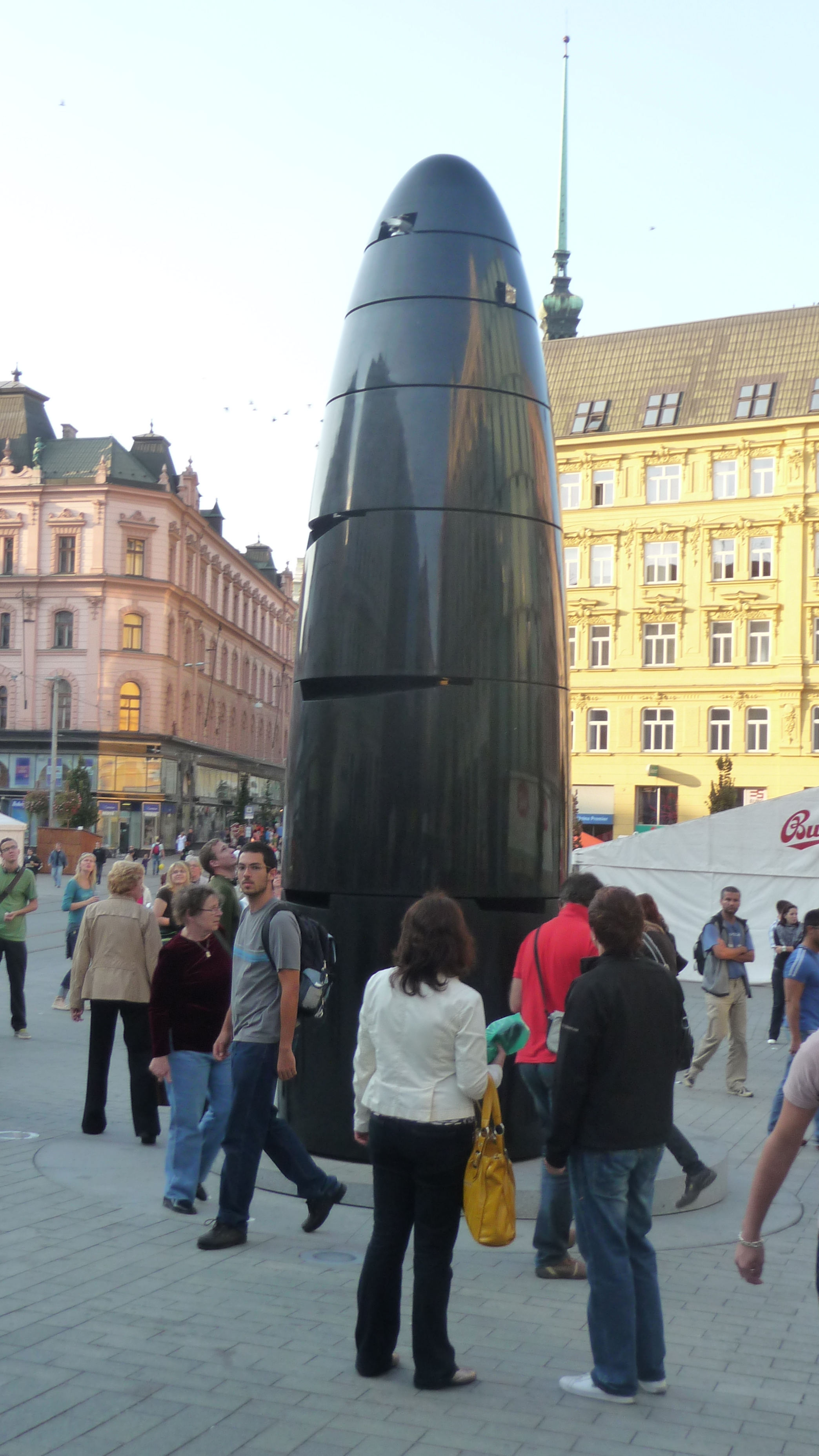 Brno Astronomical Clock, Liberty Square, Brno